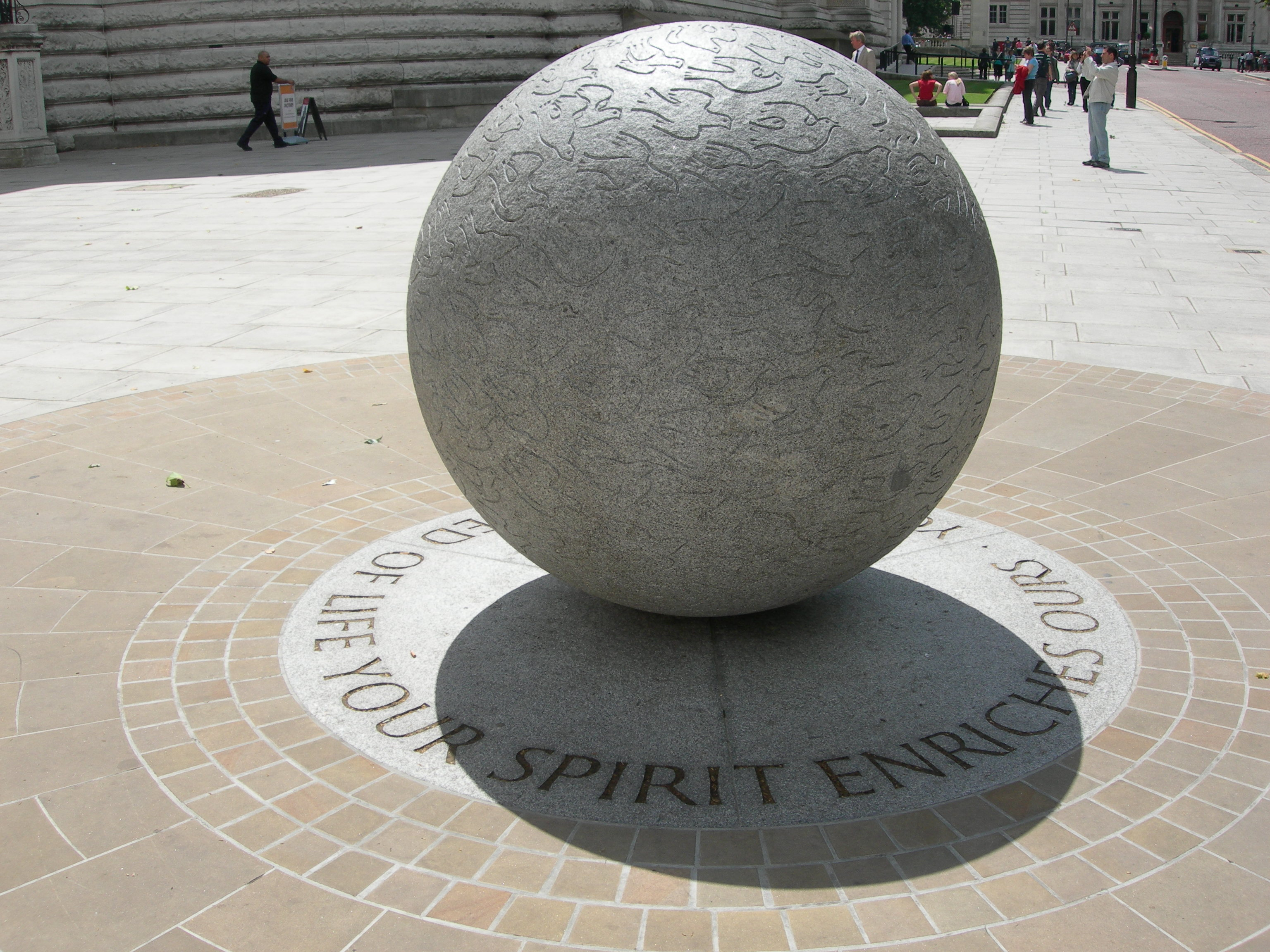 Monument to the Bali terrorist victims in London I took the picture and have released it under a free license, but it is a picture of a sculpture / monument / artwork that might have copyright restrictions to reproductions (even 2-dimensional) in some jurisdictions. In such cases, it is claimed as fair use for the article 2002 Bali bombings, as it depicts one of the memorials to these victims that are discussed in the article.